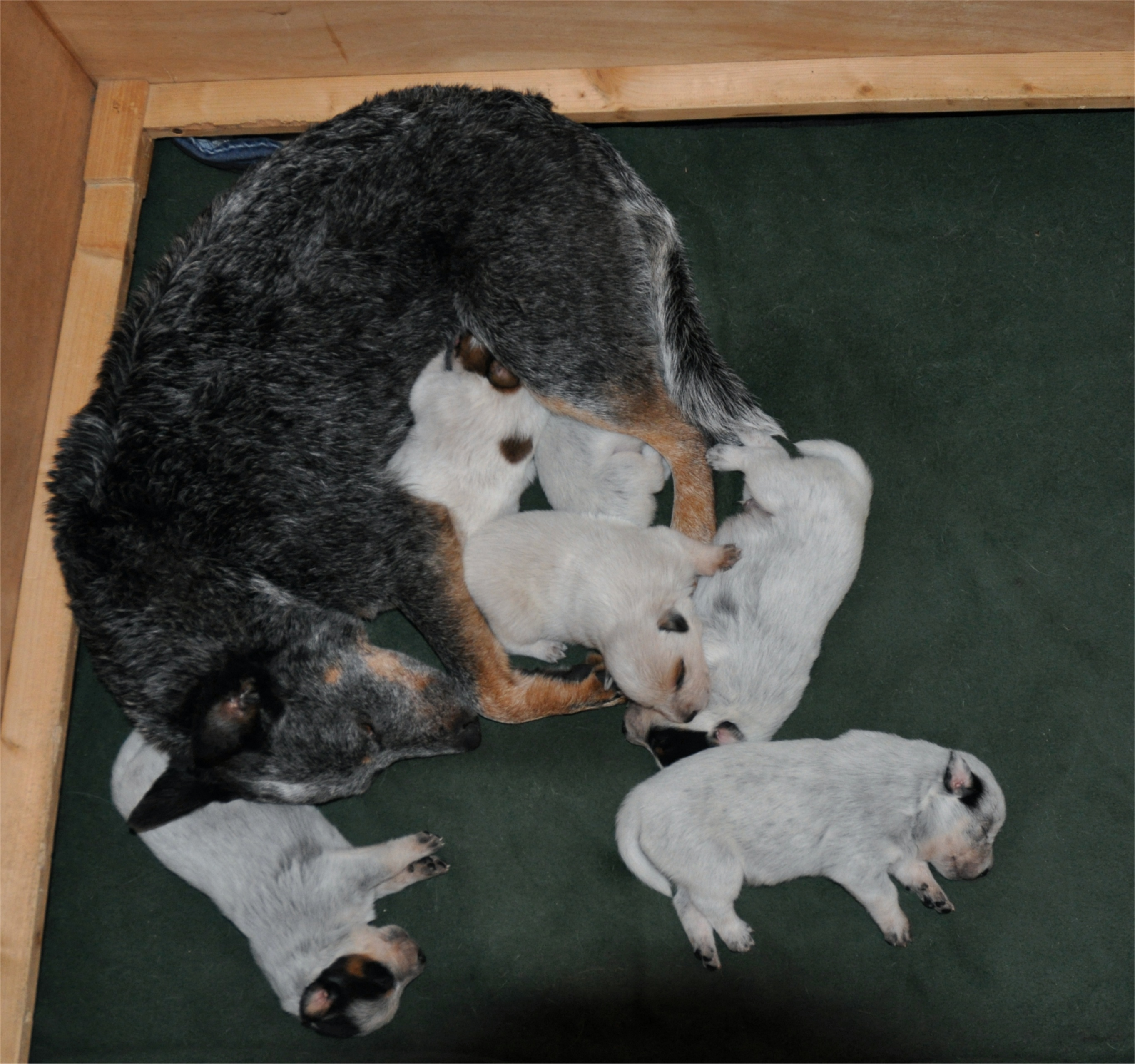 ACD puppies 2 weeks